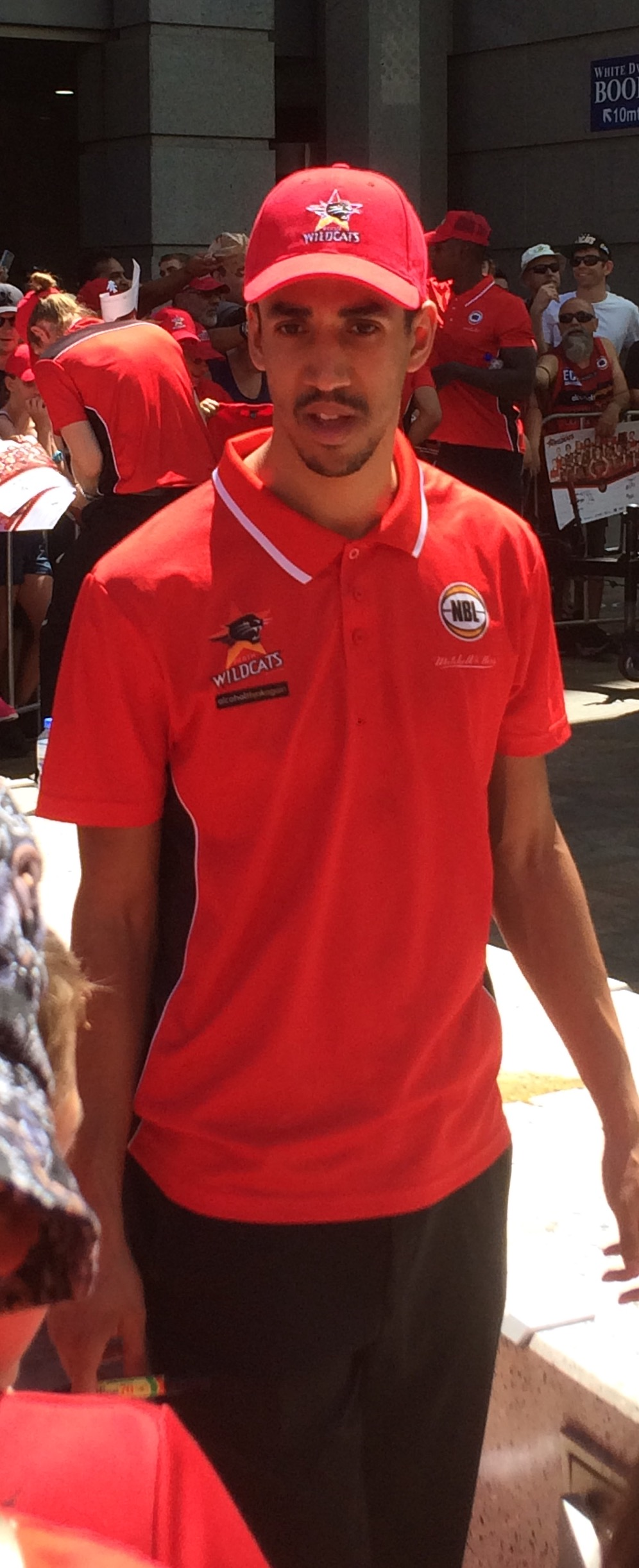 DKD at the Perth Wildcats' 2017 championship celebration